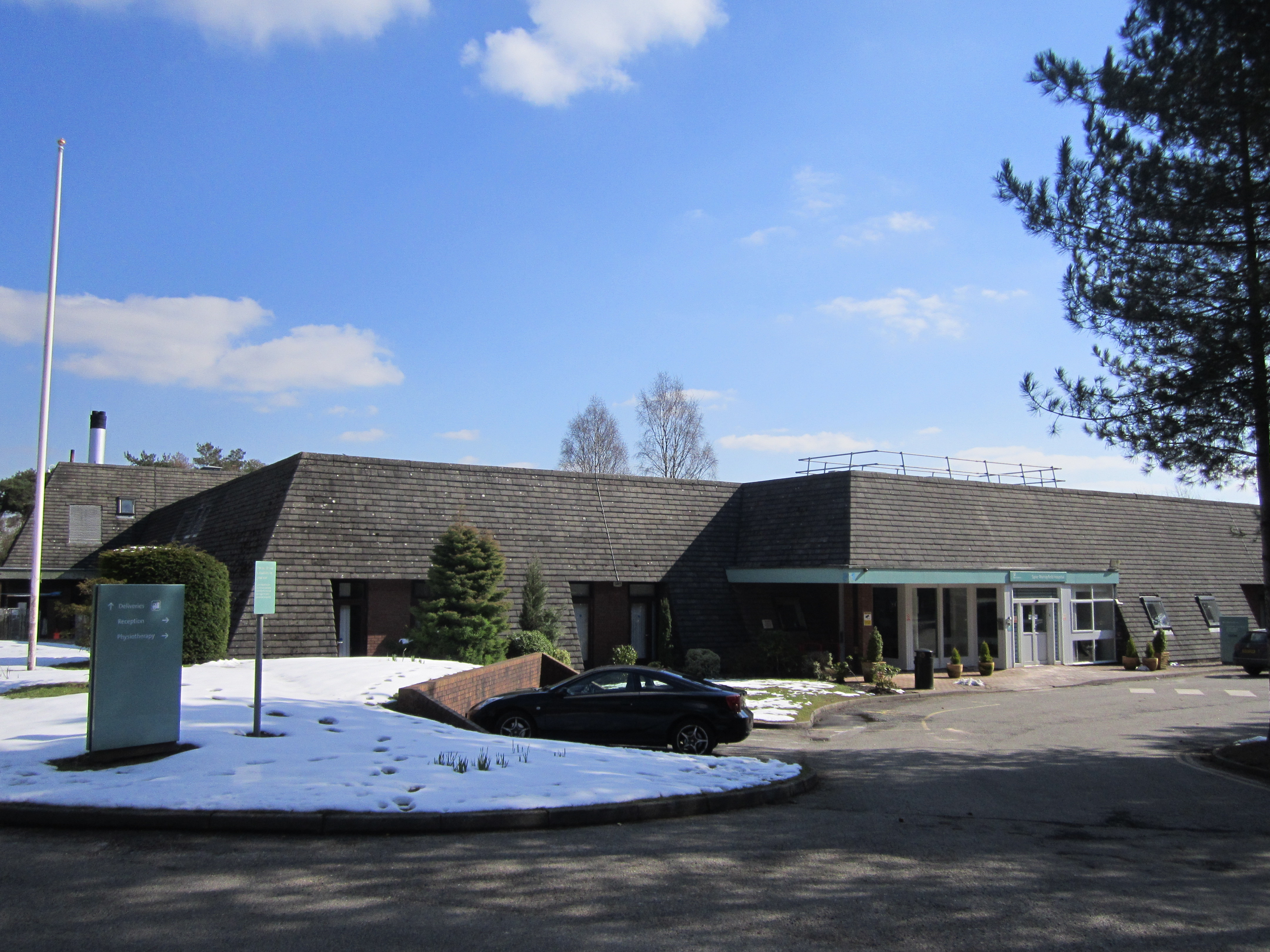 Spire Murrayfield Hospital, Thingwall, Wirral, Merseyside, England.